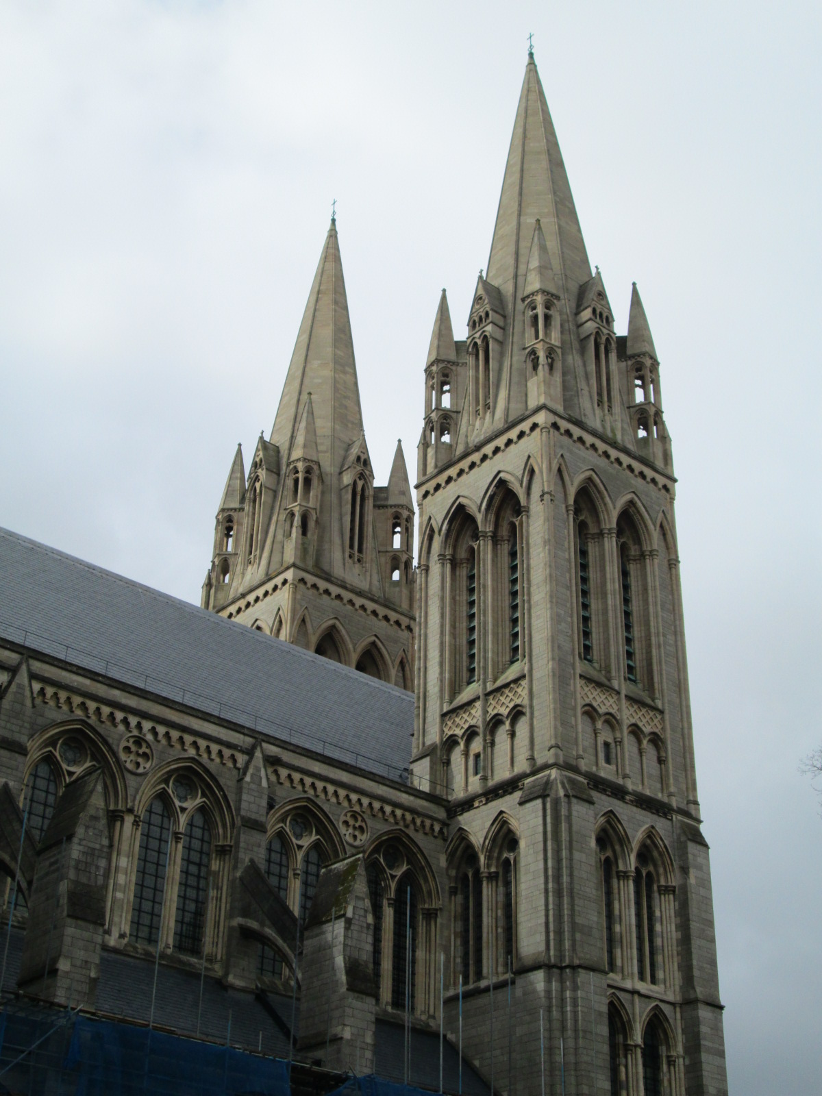 The twin spires at the west end of Truro Cathedral.